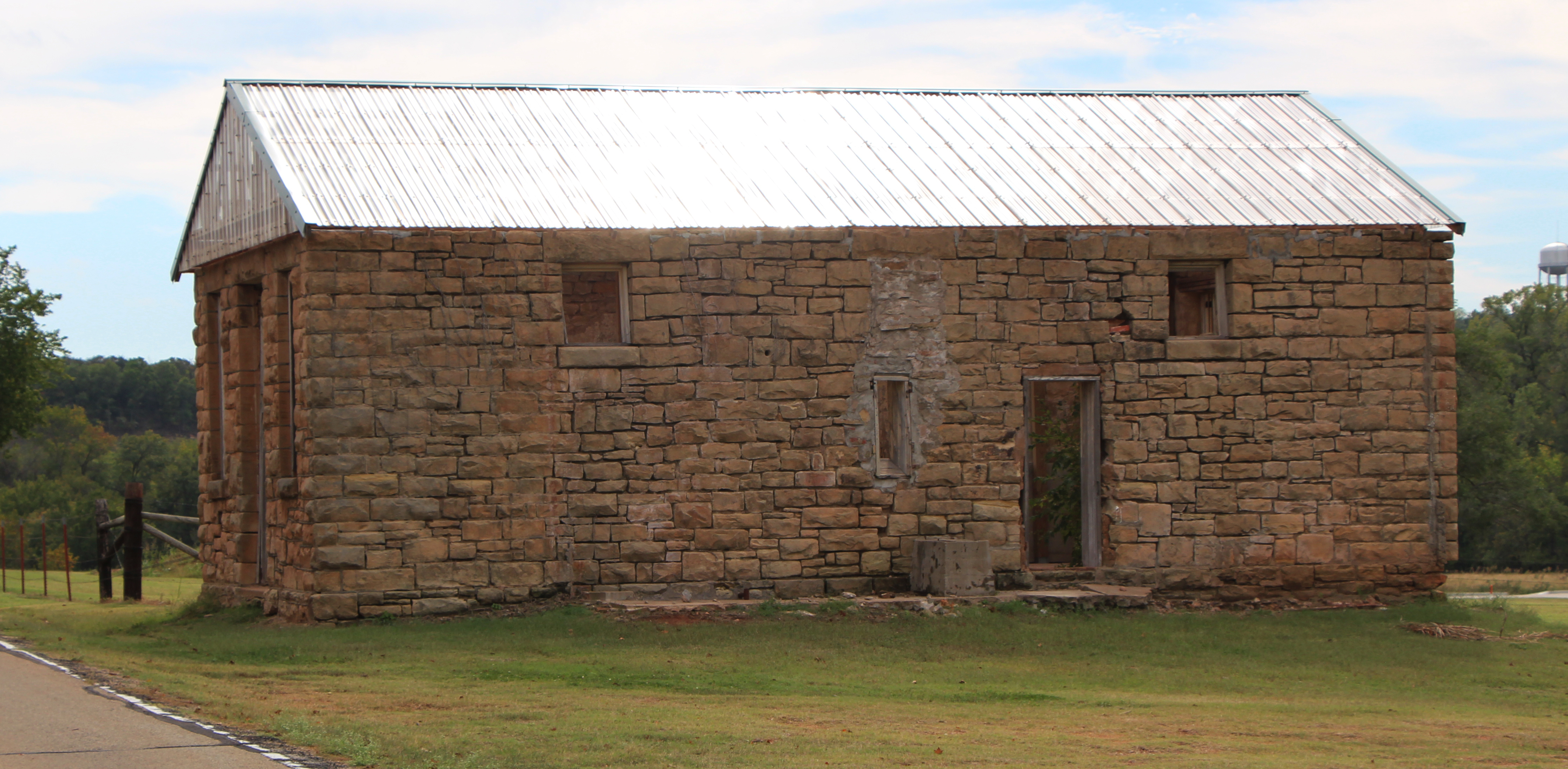 Laundry